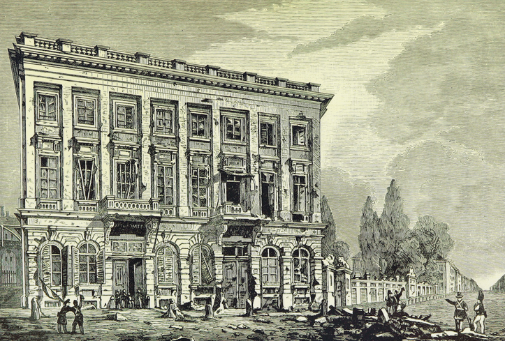 "Café de l'Amitié" and the former hotel of Prince Frederic on the Place Royale during the Belgian Revolution (Tuesday, 28 September 1830)